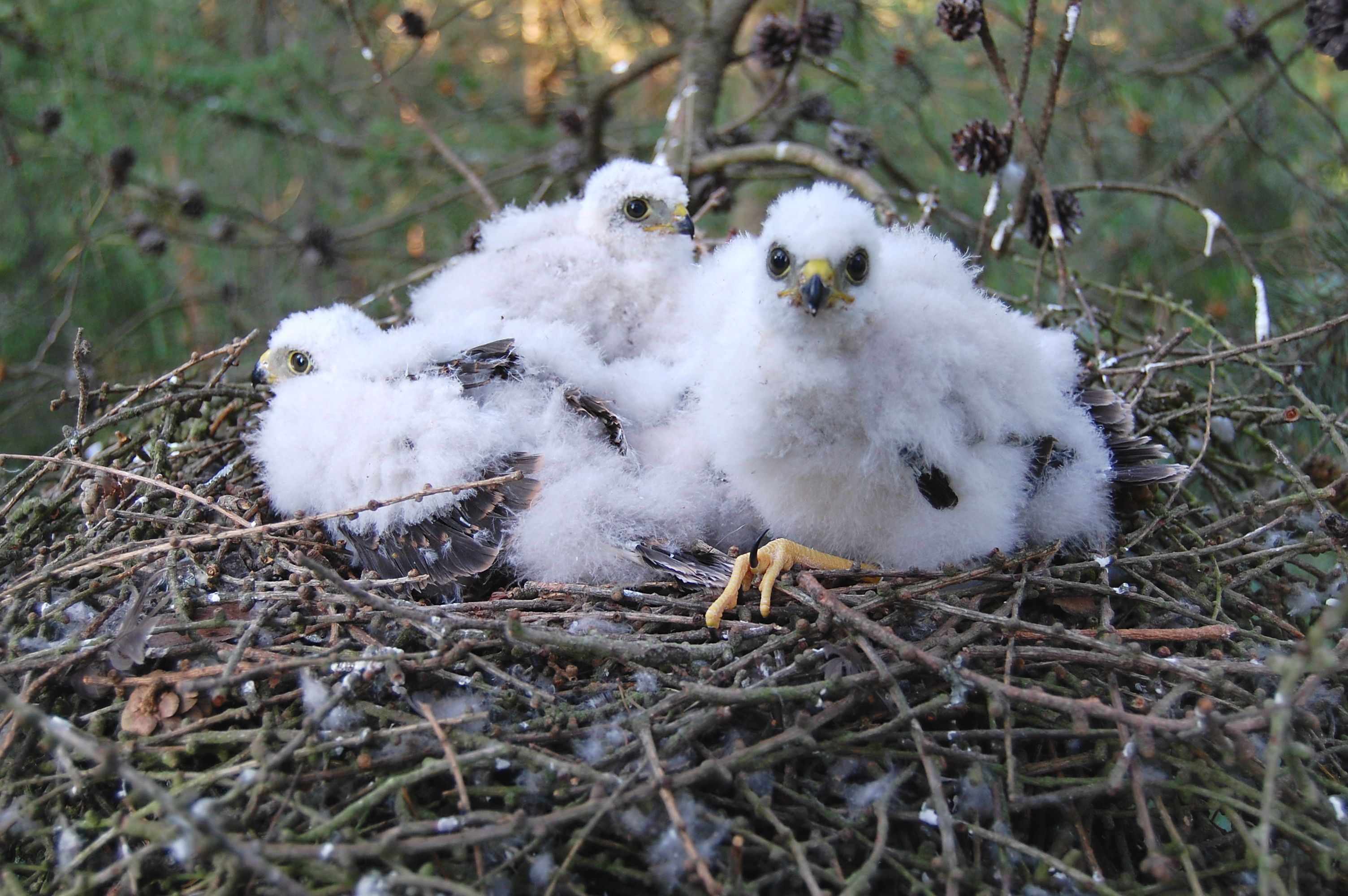 Sparrowhawk (Accipiter nisus), nestlings in the nest. Forst Jungfernheide, Berlin, Germany. Picture was taken during regular ringing acitivities.